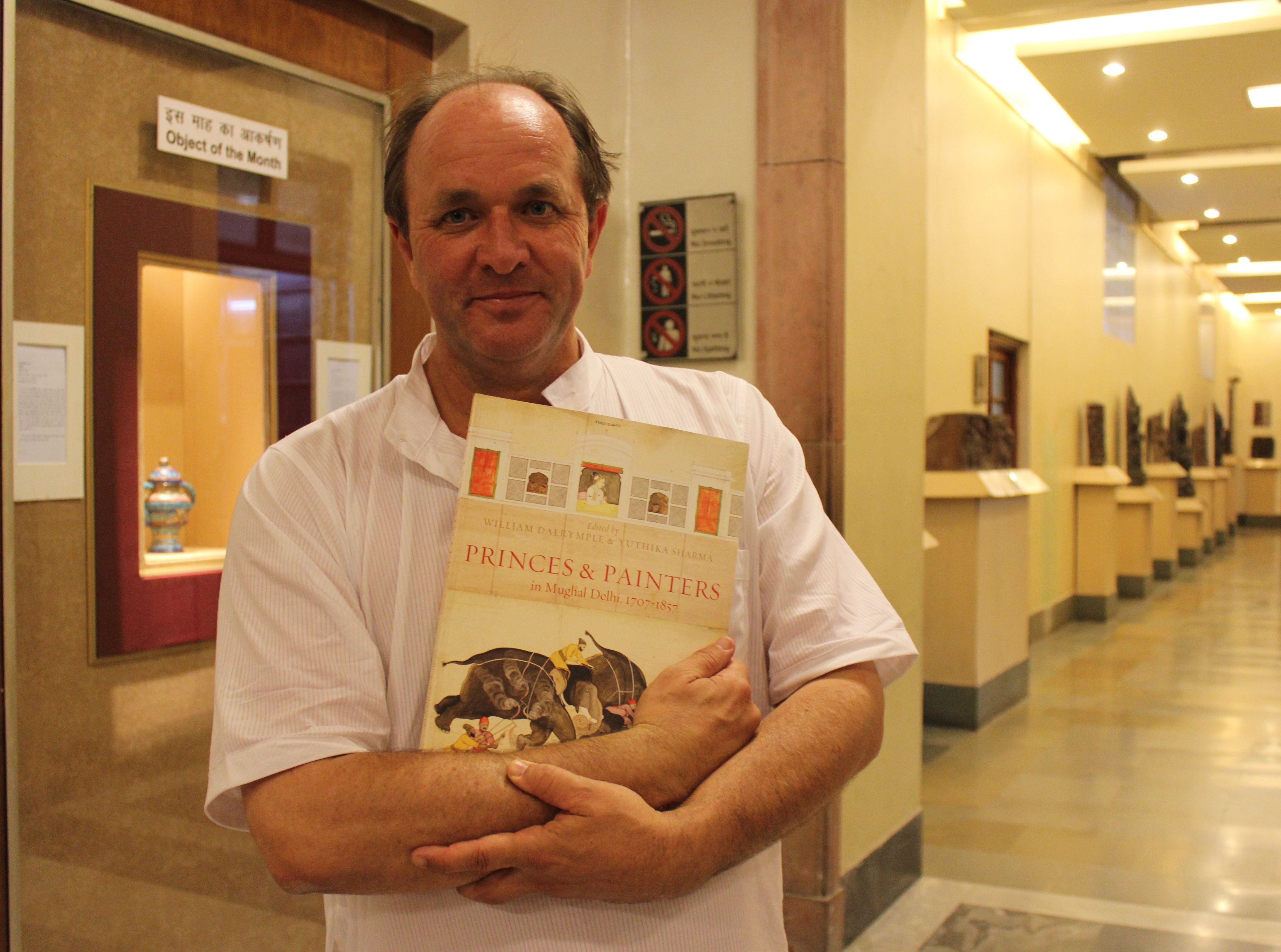 William Dalrymple, the Historian in 2014